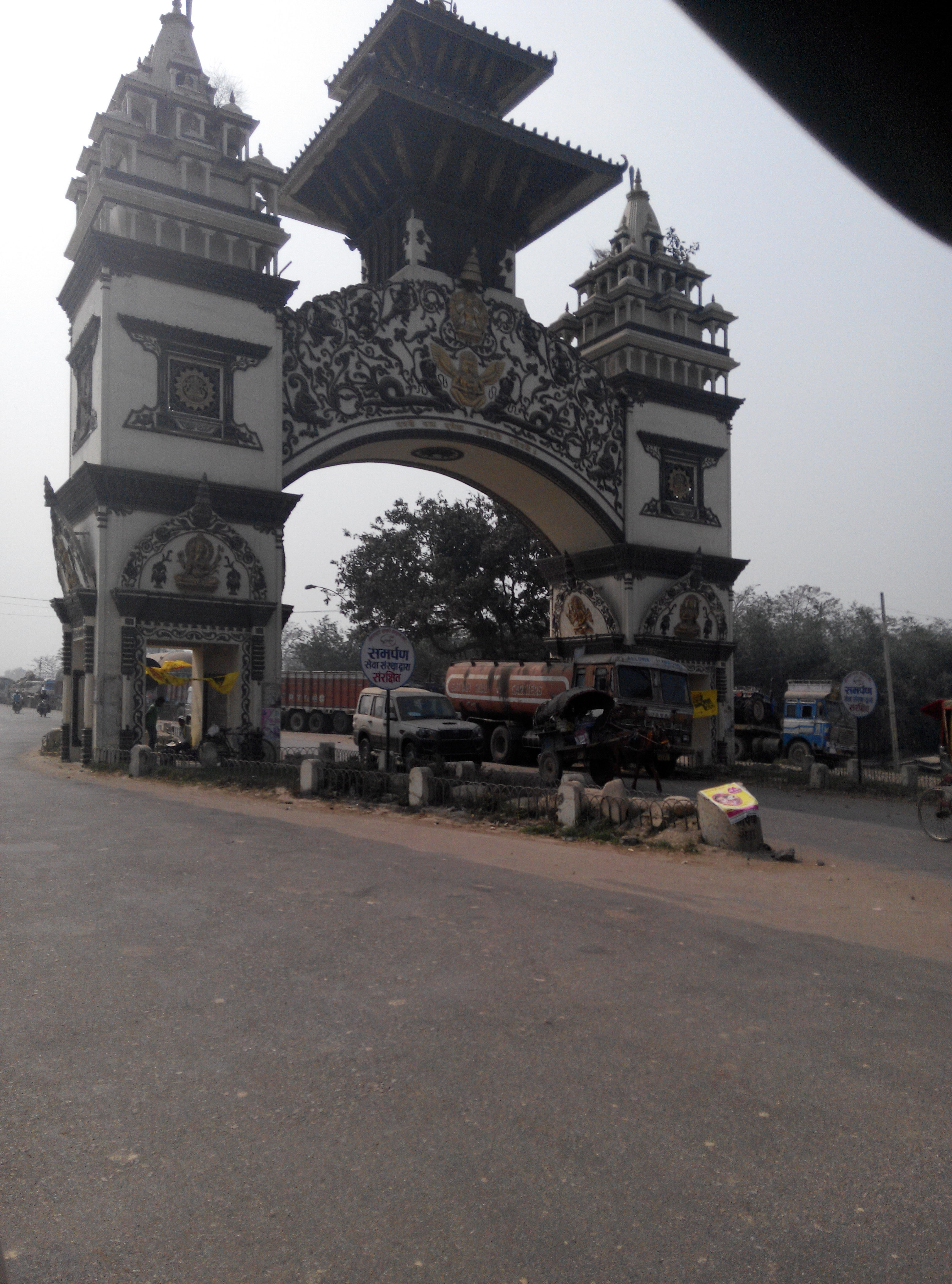 The symbolic gate is located next to Raxaul customs check post.